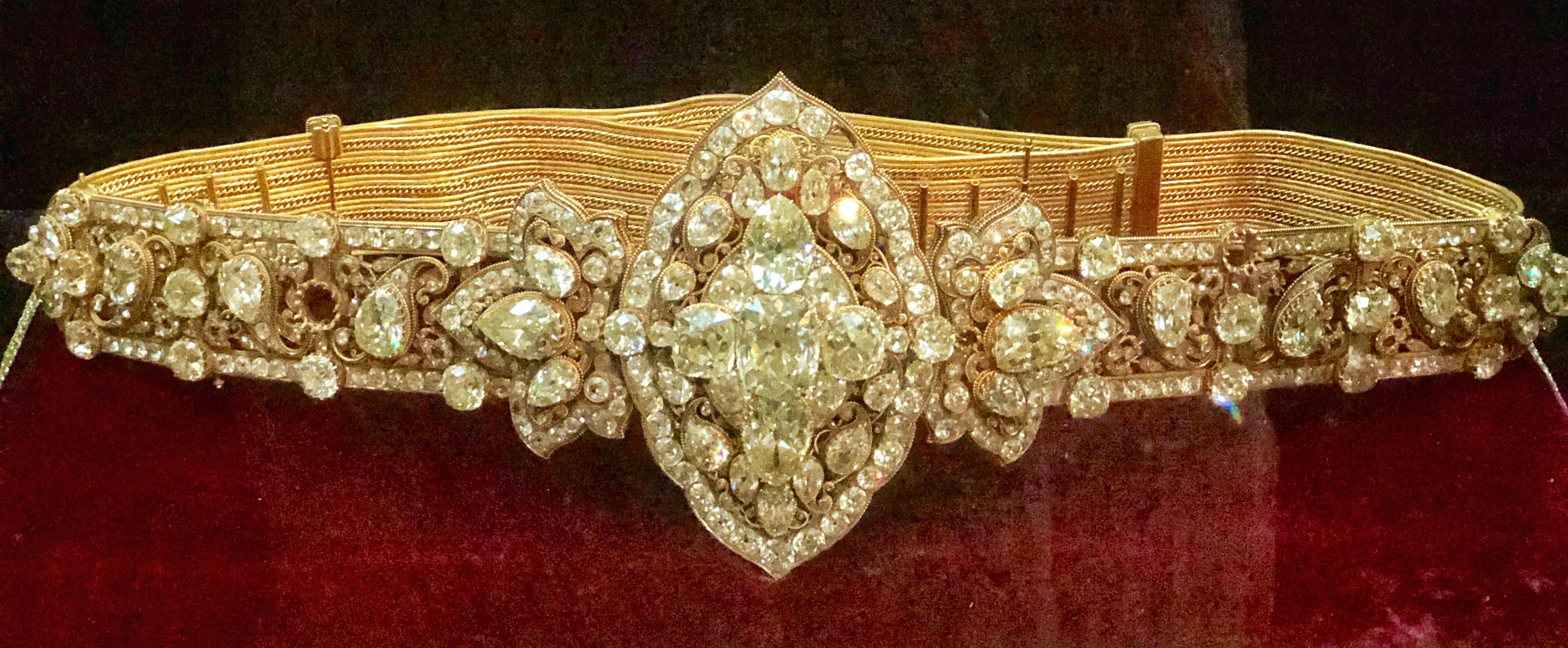 Made for the Nizam's of Hyderabad